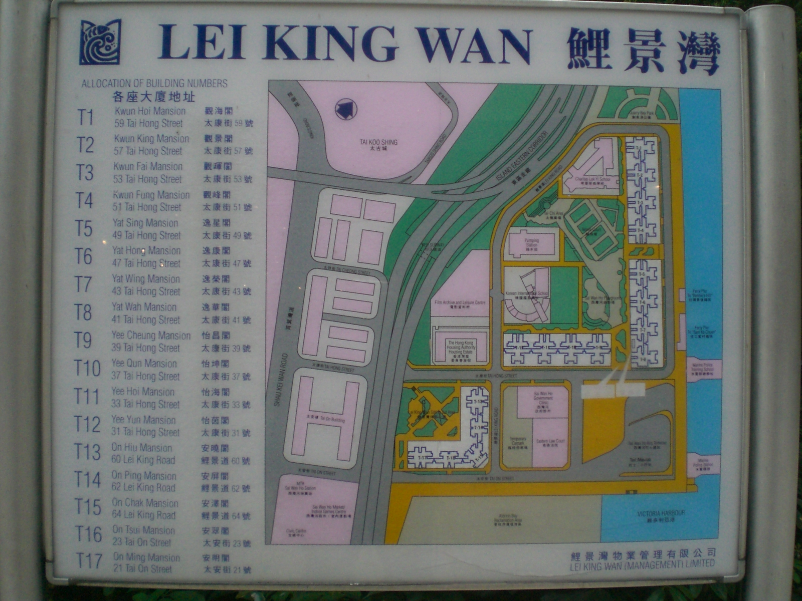 香港東區西灣河 鯉景灣 西灣河遊樂場